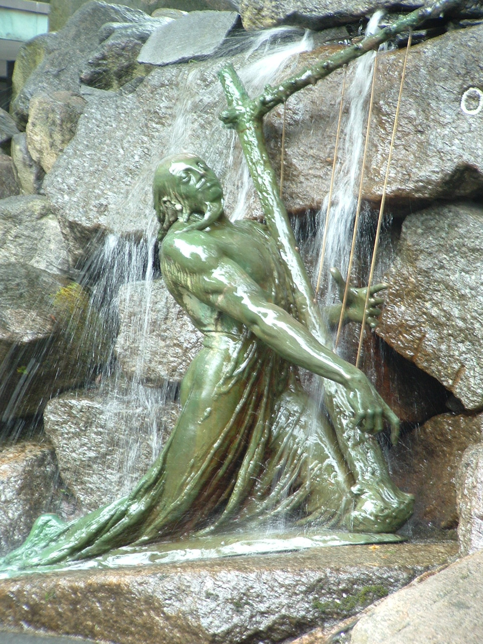 Nøkken (male Water-sprite learning or teaching music to)+ Ole Bull. Part of a fountain in a public place in Bergen, Norway